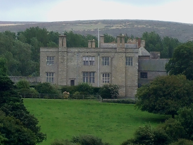 The Court House, East Quantoxhead